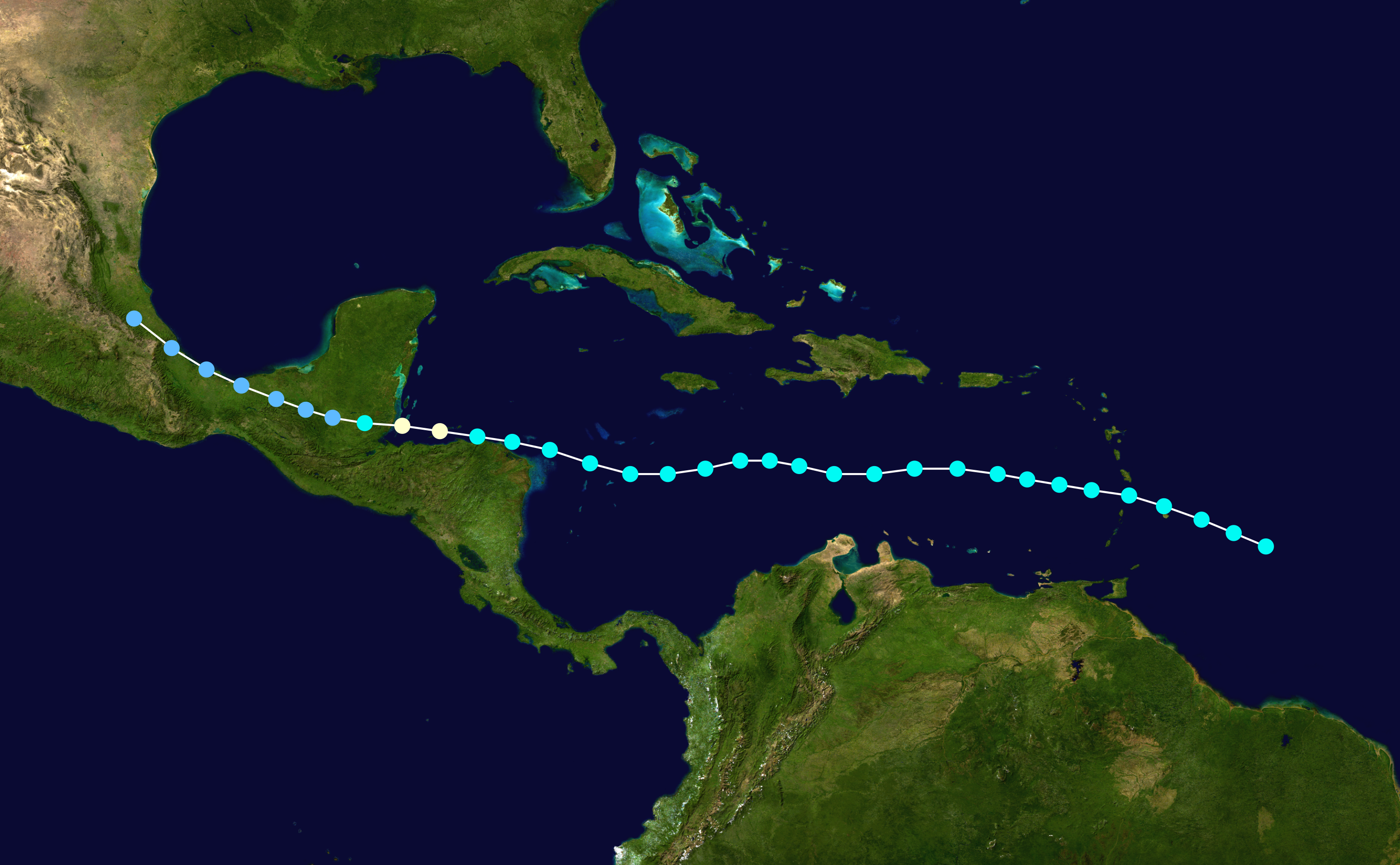 Hurricane Abby (1960) track. Uses the color scheme from the Saffir-Simpson Hurricane Scale.